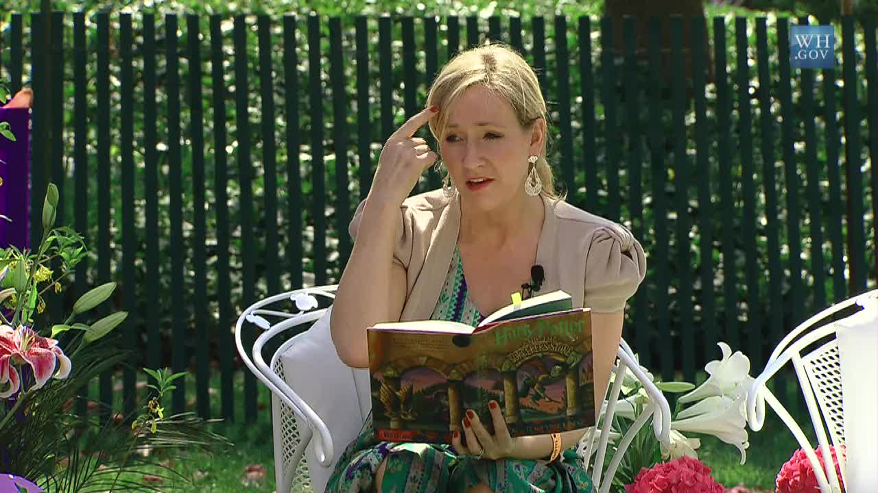 Author J.K. Rowling reads from Harry Potter and the Sorcerer's Stone at the Easter Egg Roll at White House. Screenshot taken from official White House video.